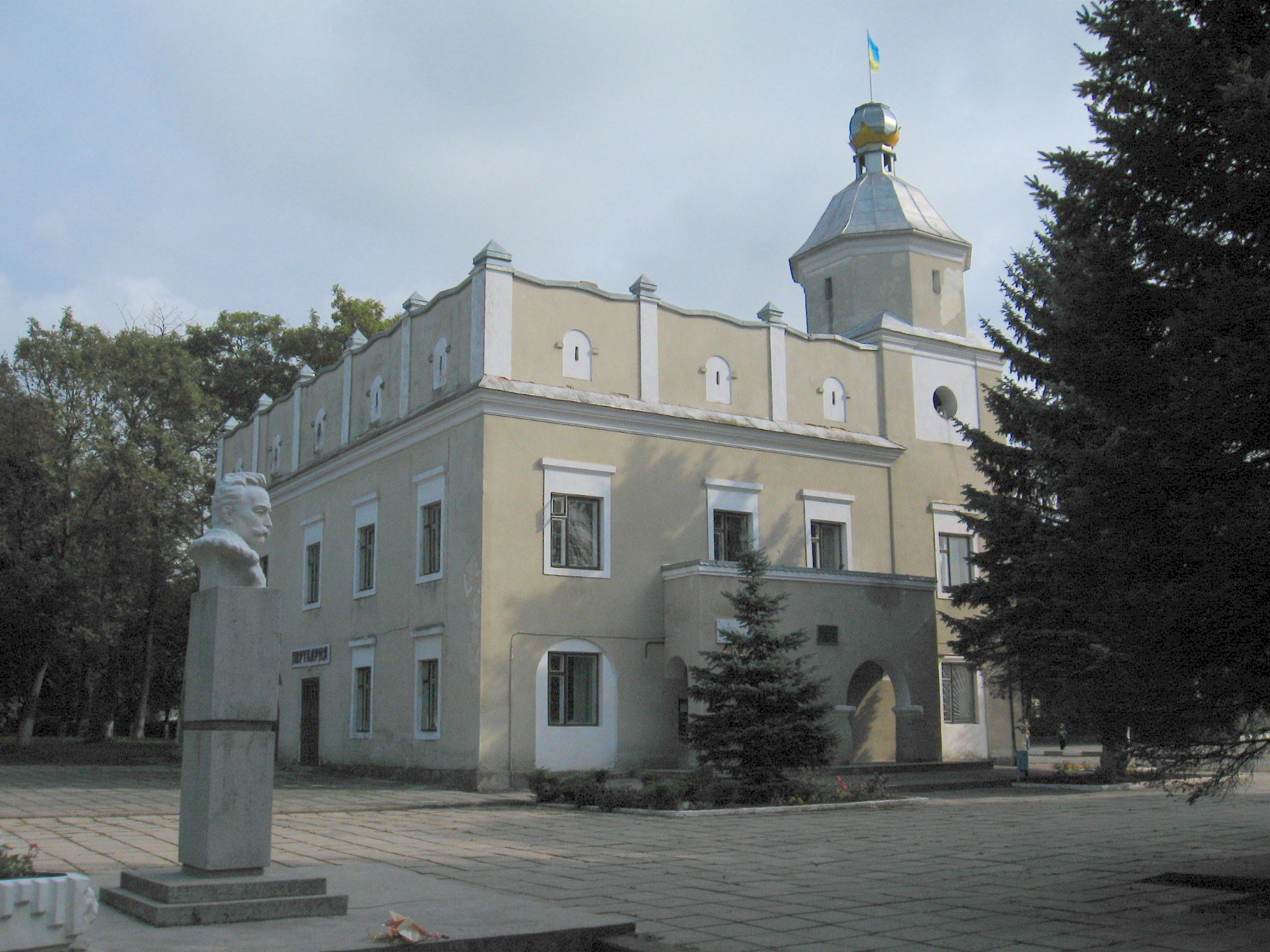 Town hall and bust of Ivan Franko in Rudky, Lviv Oblast, Ukraine.